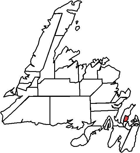 Map based on work by Earl Andrew, from maps used in 2007 elections Map based on work by Earl Andrew, from maps used in 2007 elections